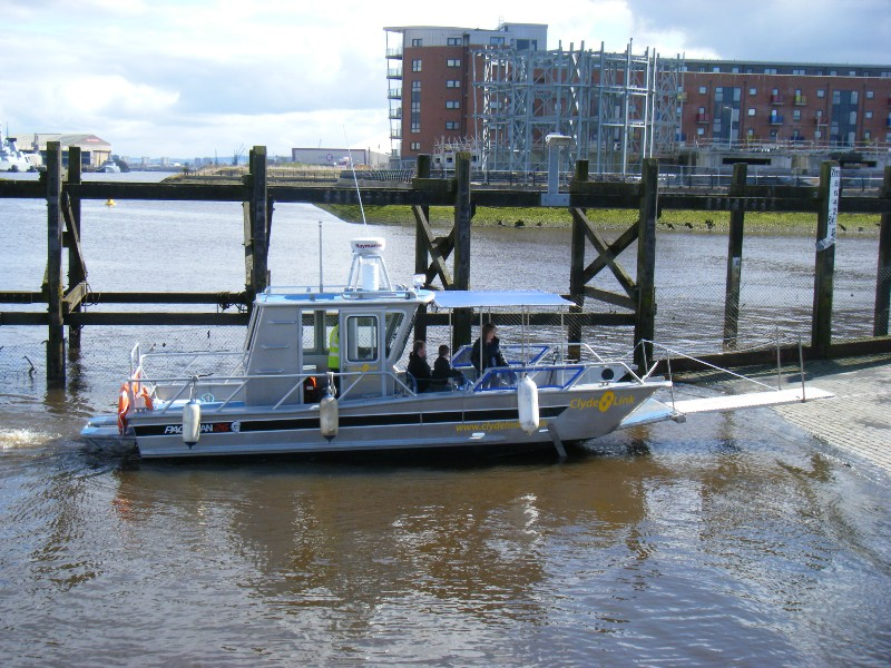 New Renfrew Ferry at Renfrew slip.